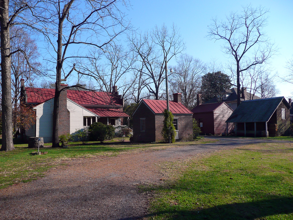 Photograph of the rear of the Carter House (on the left).